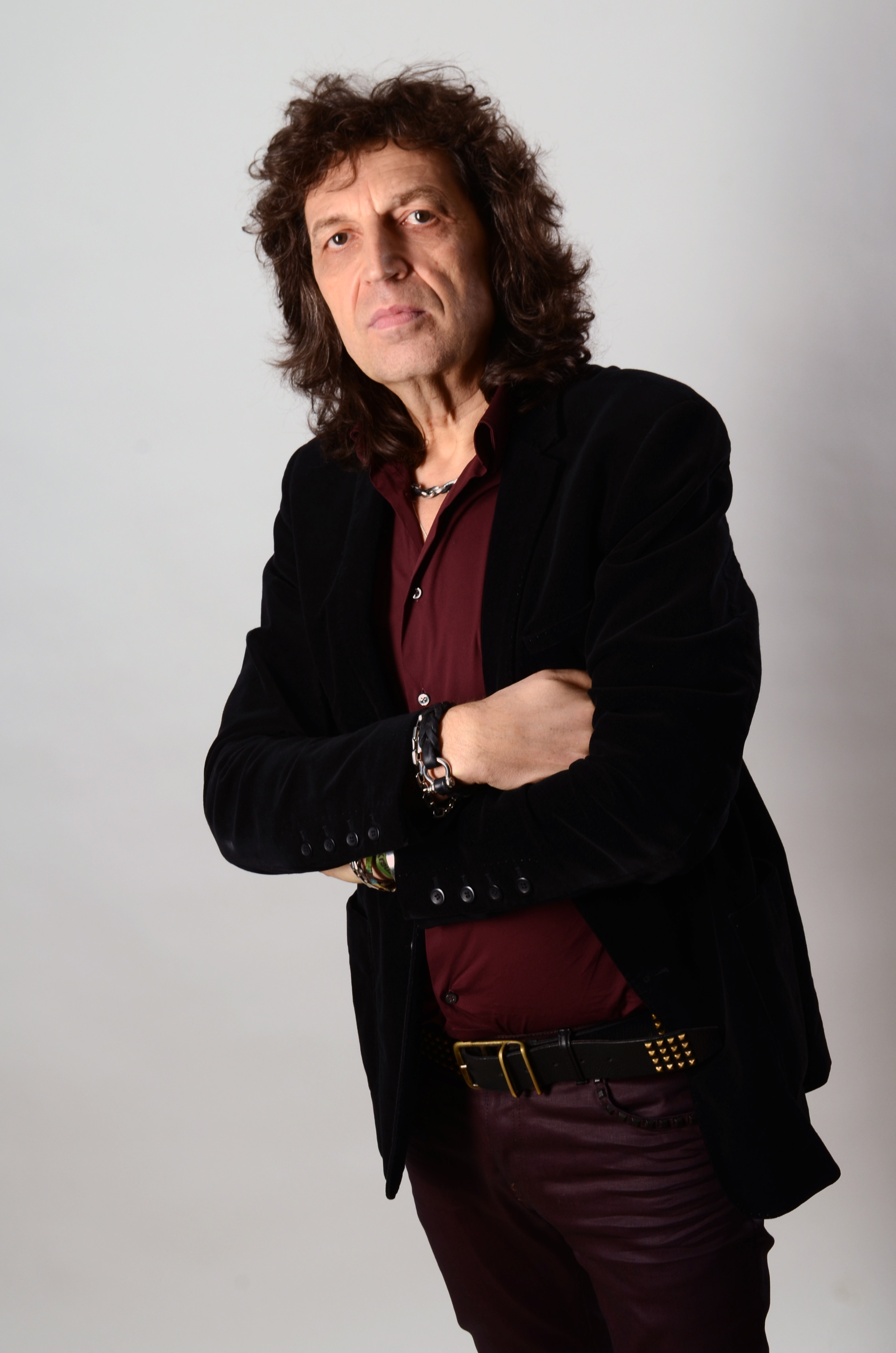 Portrait of German artist Hermann Josef Hack